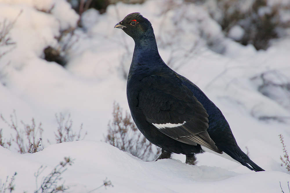 In heavy snow these birds feed mainly on Birch buds. Image taken in Glen Quaich, Breadalbane, Scotland.